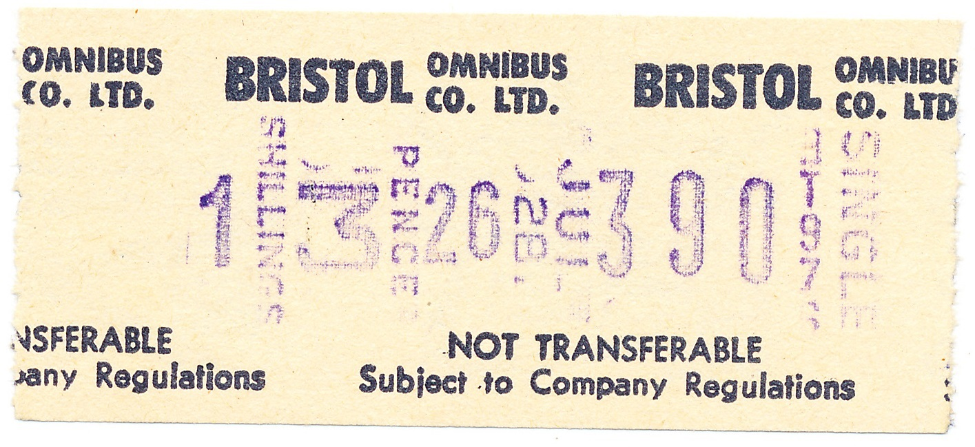 Setright bus ticket showing a single fare paid of 1s 3d, issued at stage 26 on July 28 (1960), ticket serial 390 by machine BT976